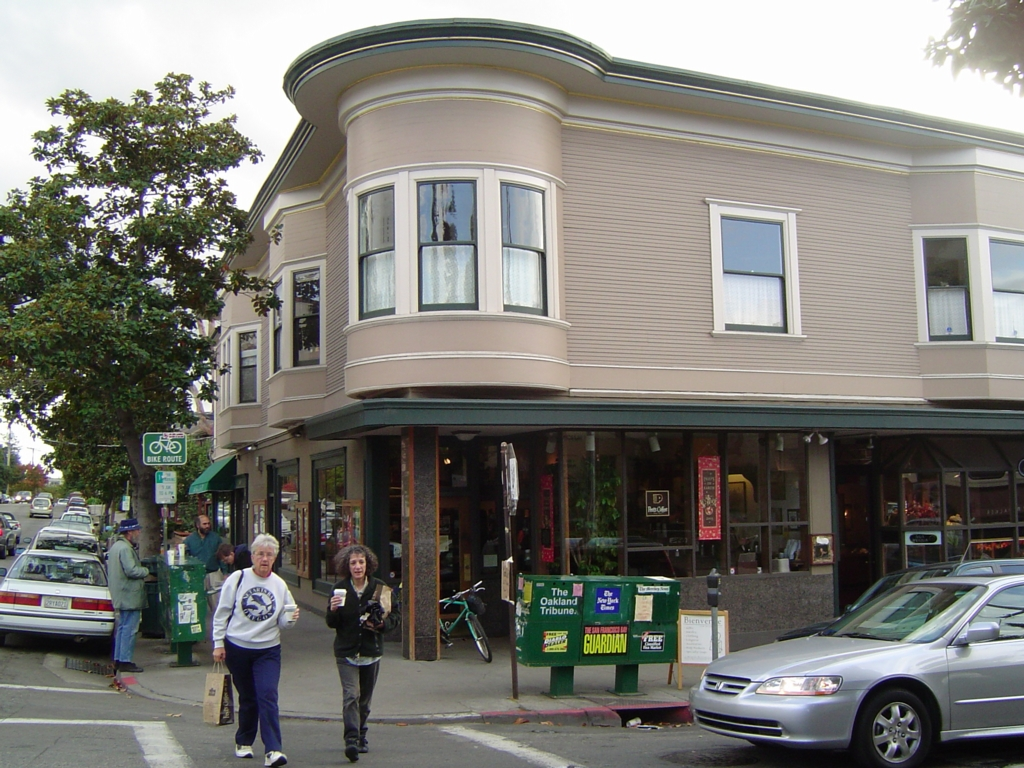 Peet's Coffee and Tea, original store, Walnut and Vine (2124 Vine Street) in Berkeley, California